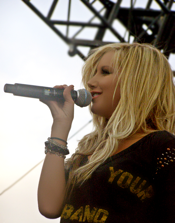 Ashley Tisdale performing at the opening for the first Microsoft Store in Scottsdale, Arizona.